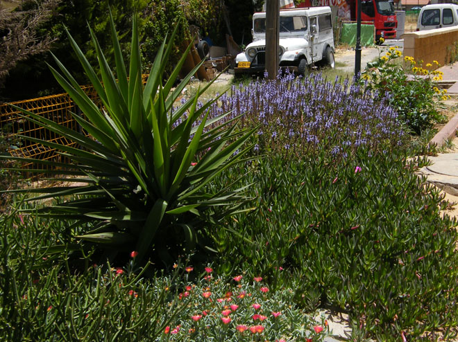 Yucca in a xeric garden, in Israel.